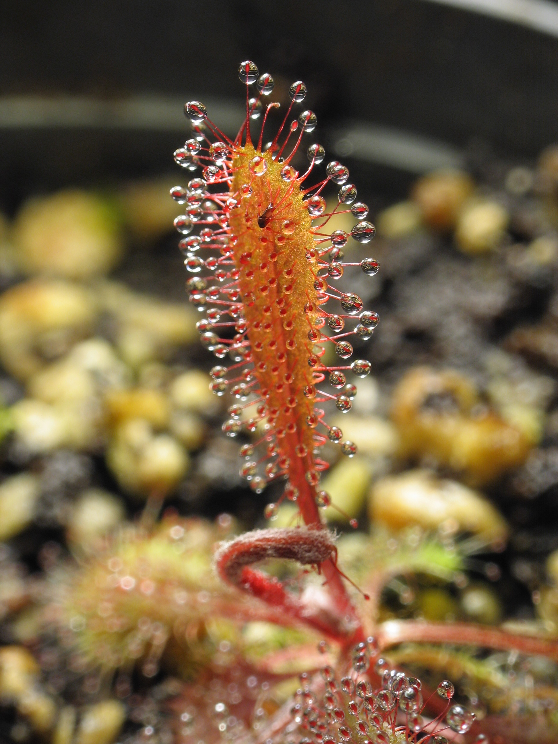 Leaf of Drosera adelae (young plant)